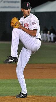 Loek van Mil pitching for the New Britain Rock Cats, August 2009.